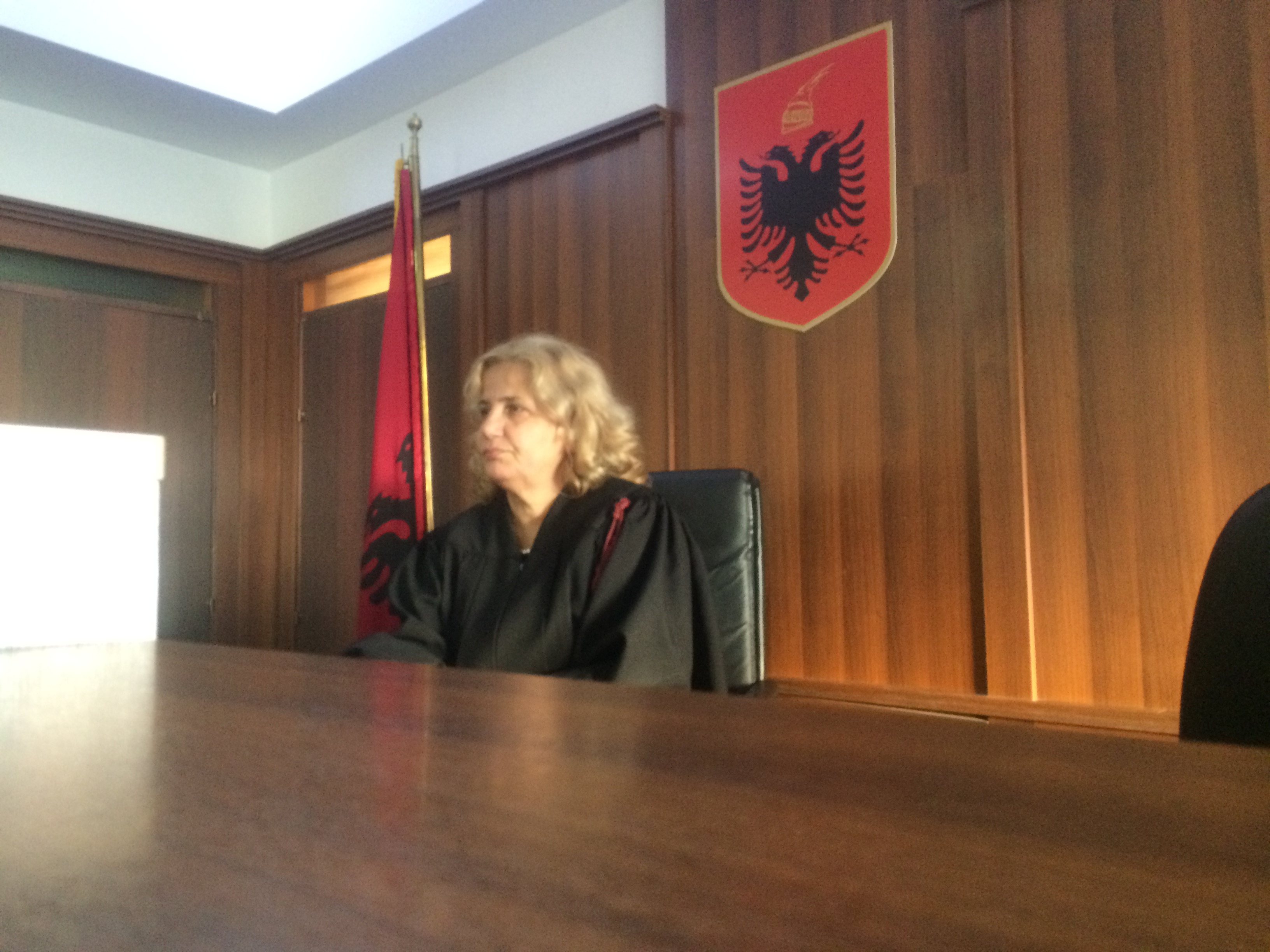 Fiqirete2 at work